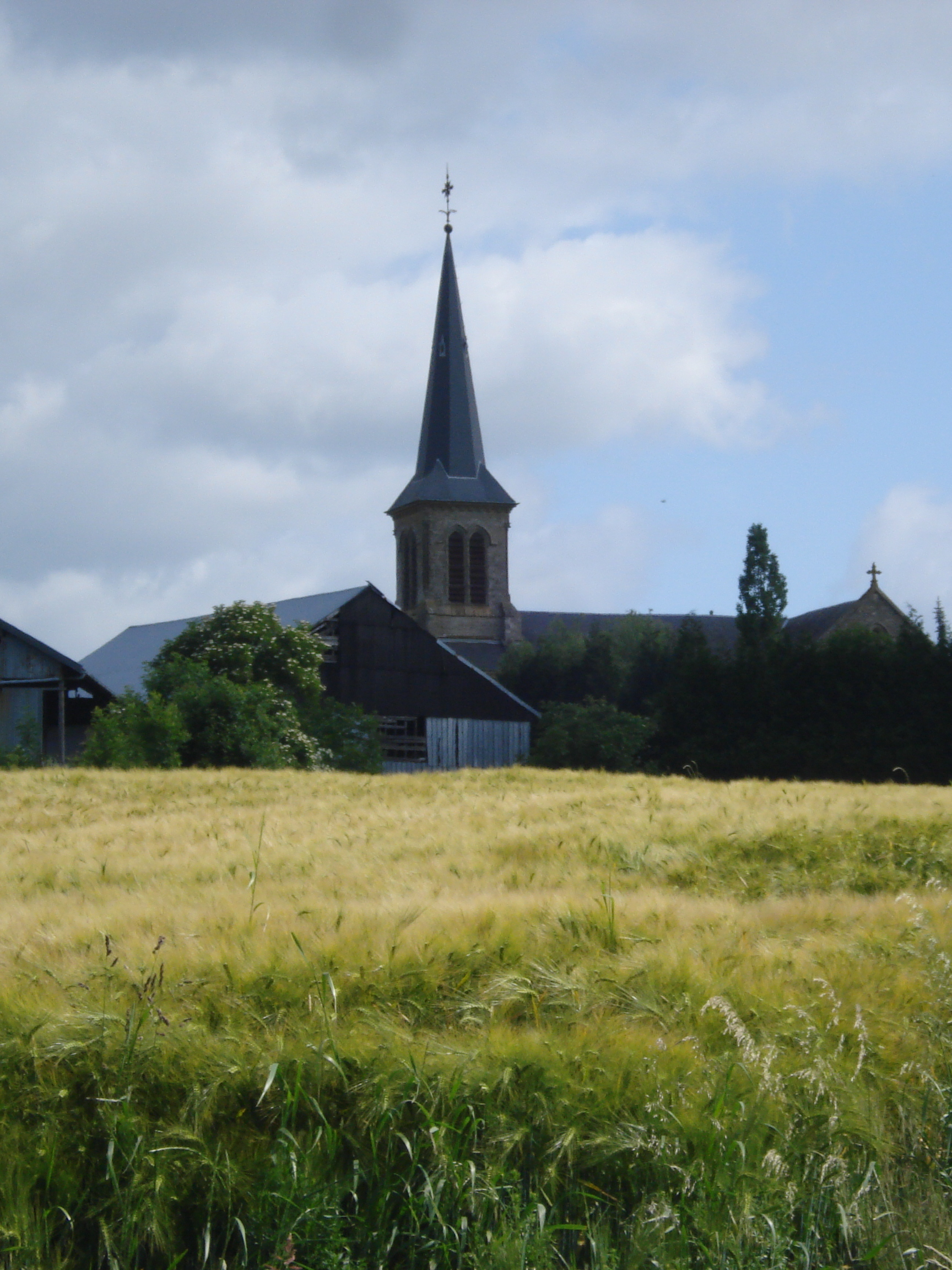 view of St.Lambert (municipality of St.Lambert-et-Mont-de-Jeux, Ardennes, Fr).